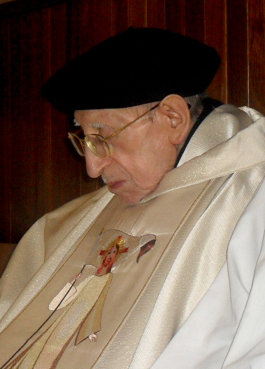 Padre Matteo during a Saturday mass in Margifaraci (Palermo).